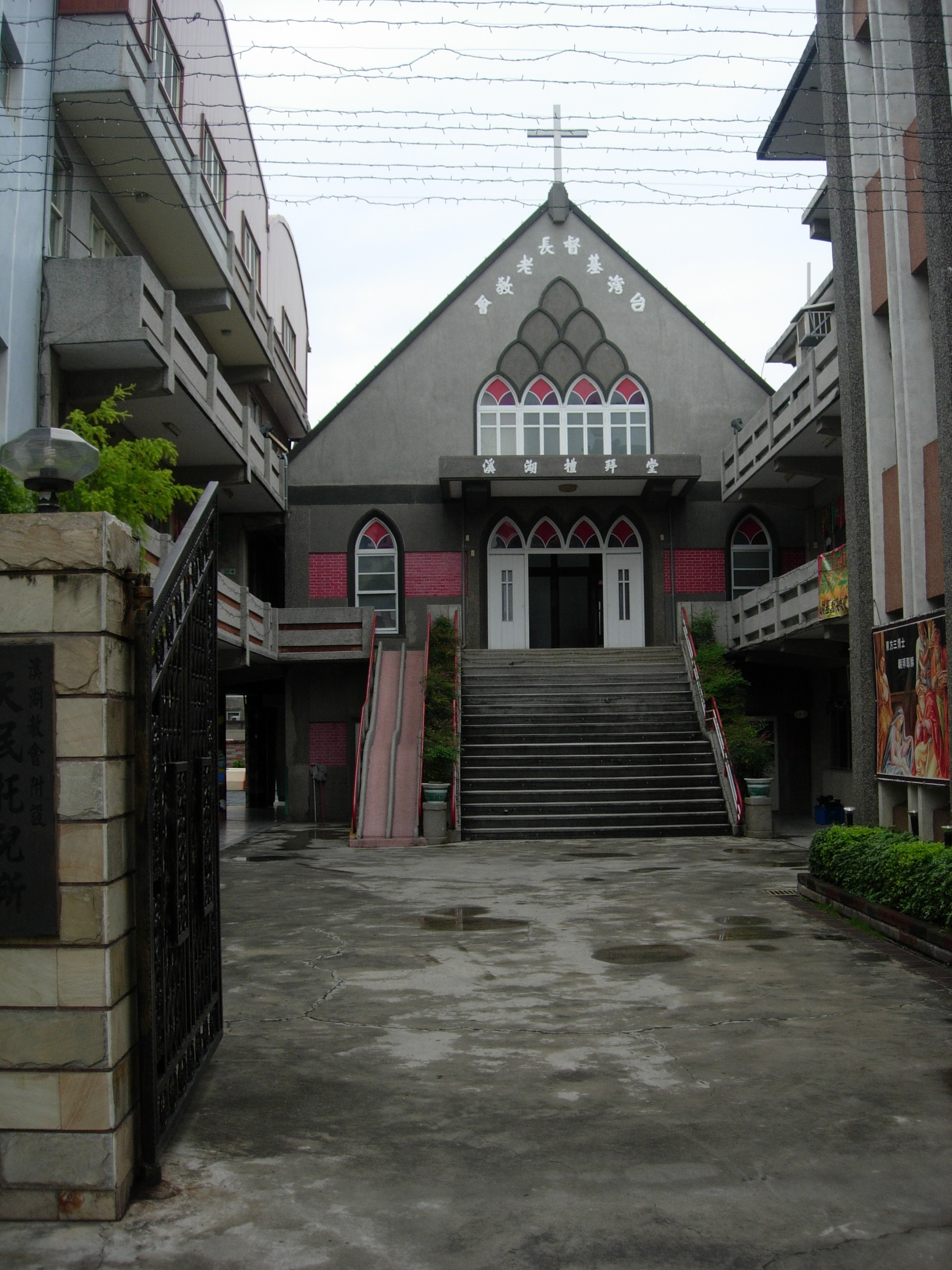 Sihu Church中文（台灣）: 溪湖基督長老教會。